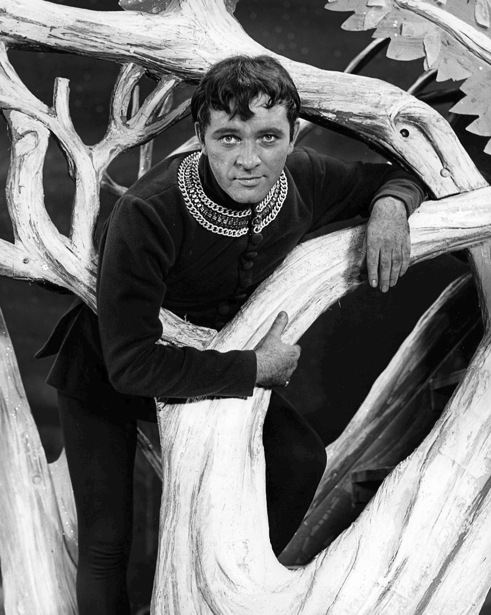 Photo of Richard Burton as Arthur from the original Broadway production of Camelot.